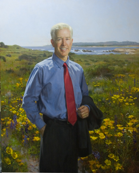 Official state portrait of Governor Gray Davis.